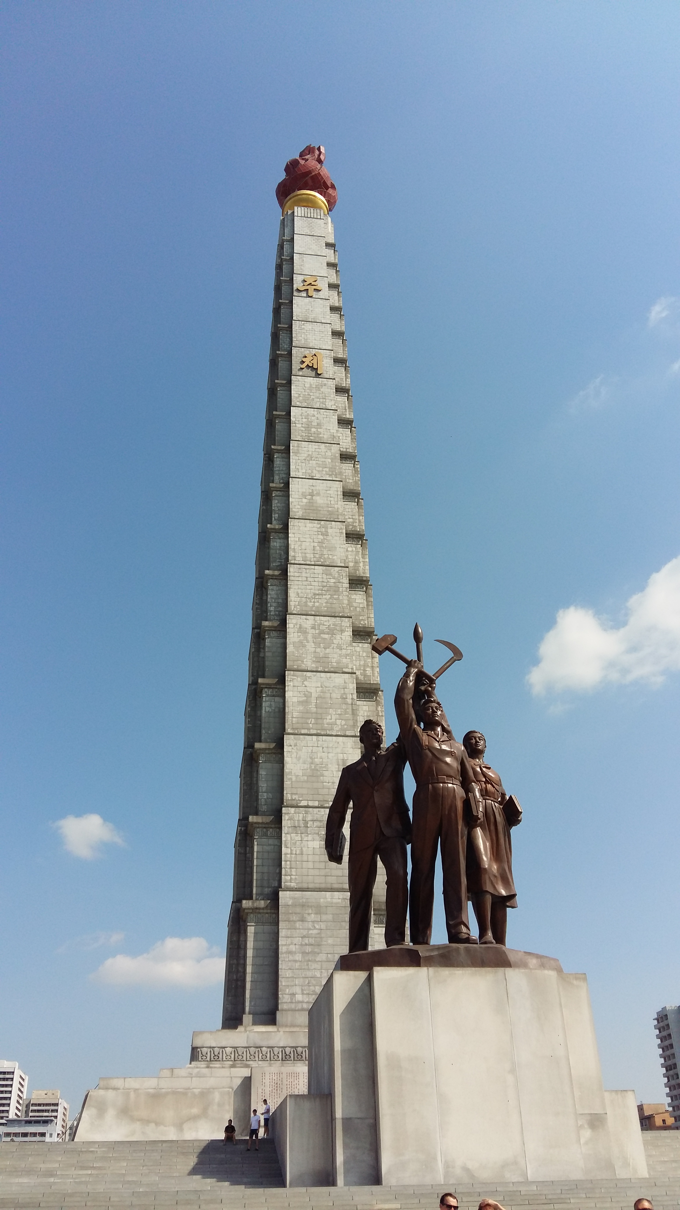 Juche Tower on the bank of Taedong River.